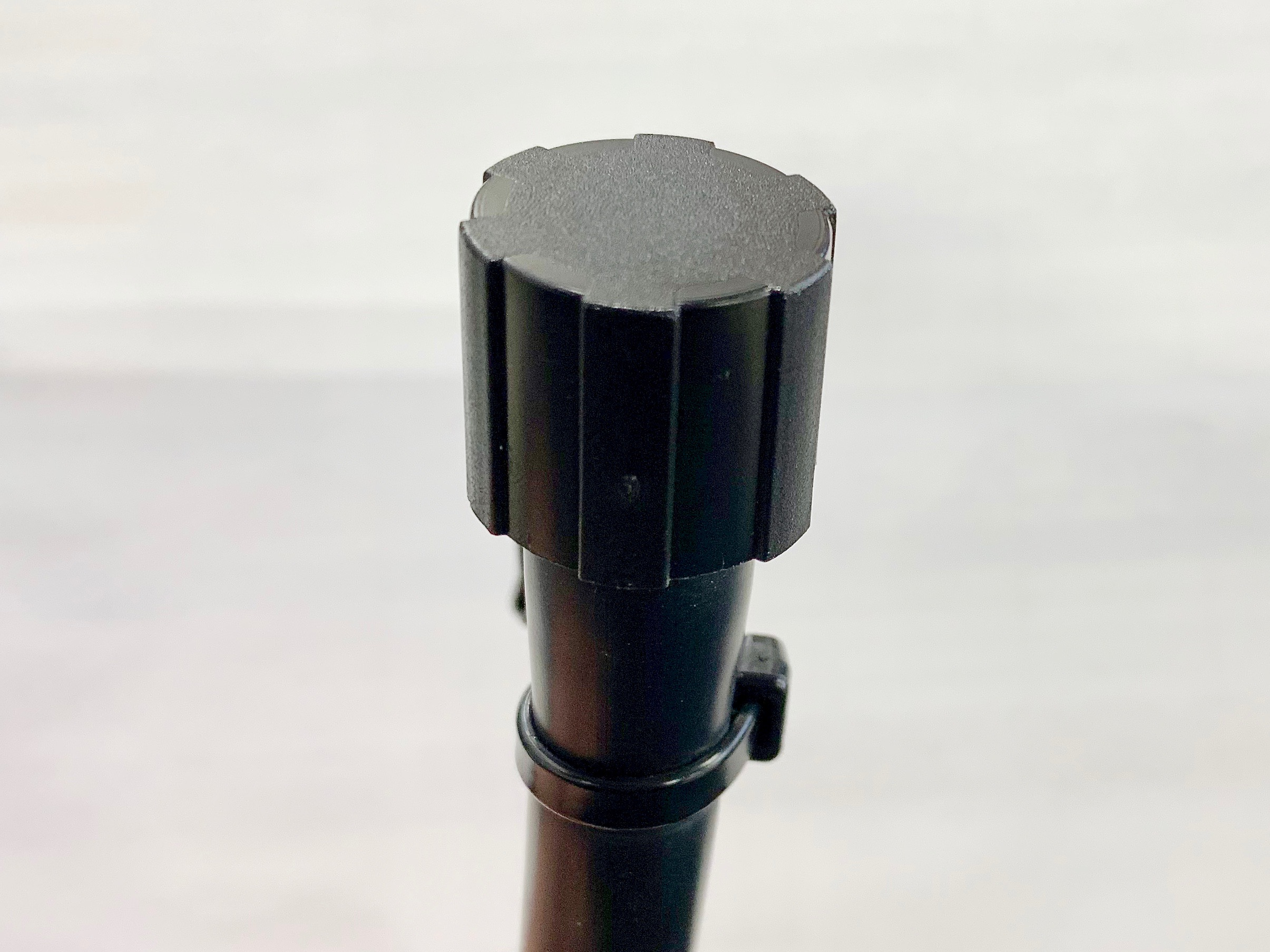 Umbrella Style Automatic Transmission Air Breathing Suppressor (TABS) 2017 Chevrolet Bolt EV. Extends ATF life.